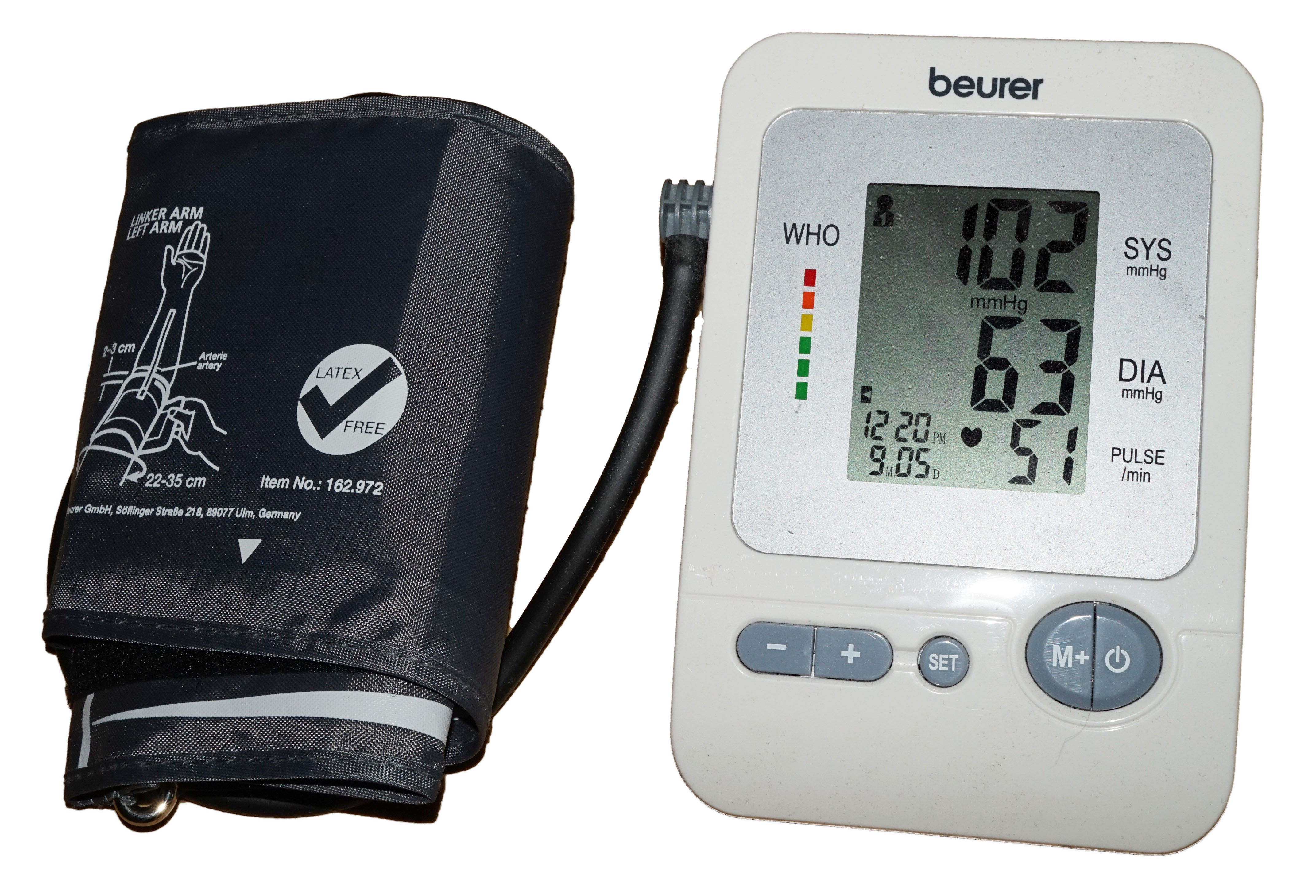 Beurer BM26 blood pressure and heart rate meter. On the screen: systole 102 mmHg, diastole 63 mmHg, and heart rate 51 pulse/minute.